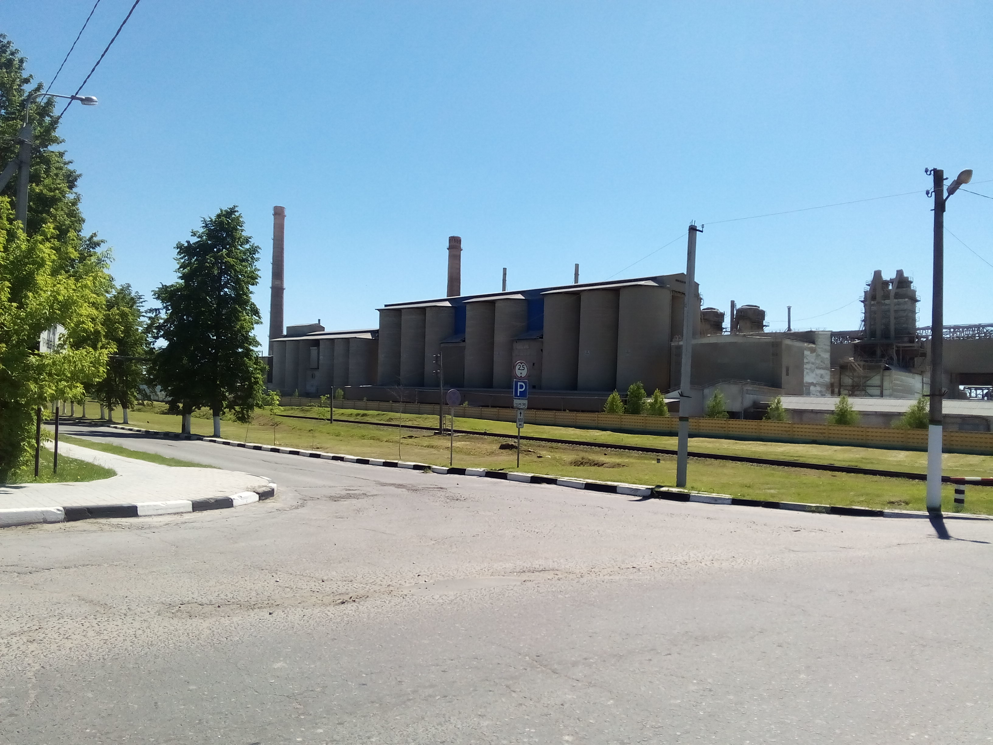 Cement plant in Krichev